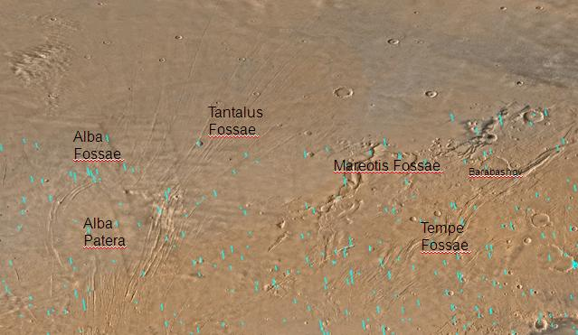 Map of Arcadia with labels. The small, colored rectangles represent image footprints for the narrow angle camera on the Mars Global Surveyor. Some are about 1 mile wide, the otheers are about 2 miles wide. The map was made by the U.S. Geological survey for NASA.